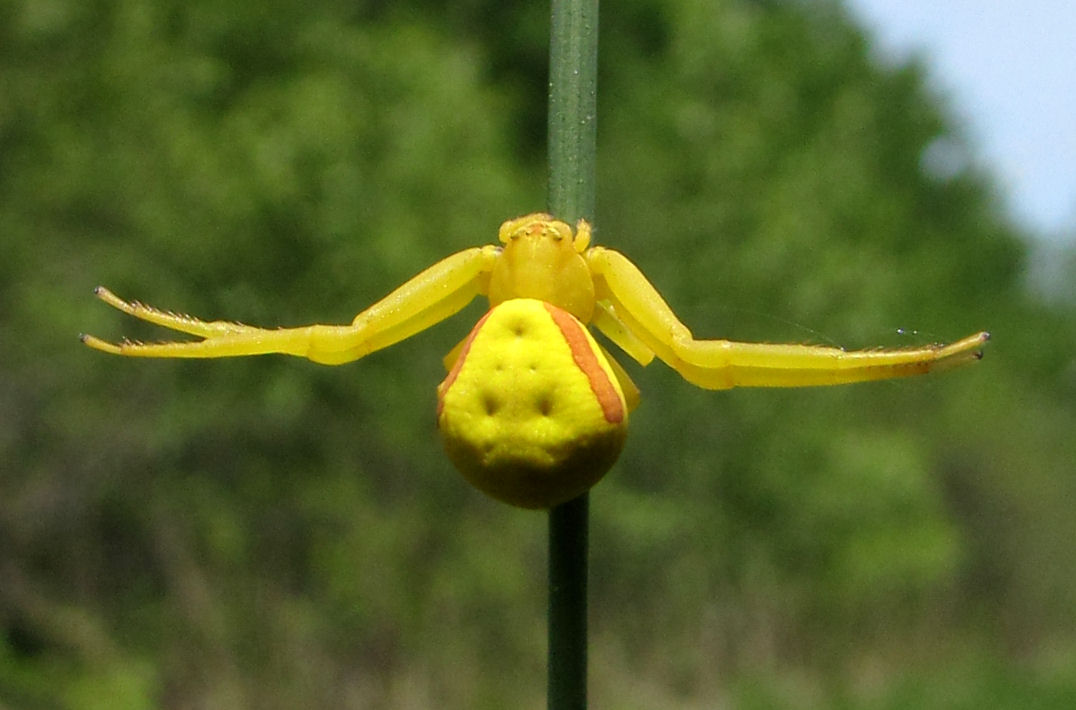 Flower Crab Spider (Misumena vatia), female, Ottawa, Ontario